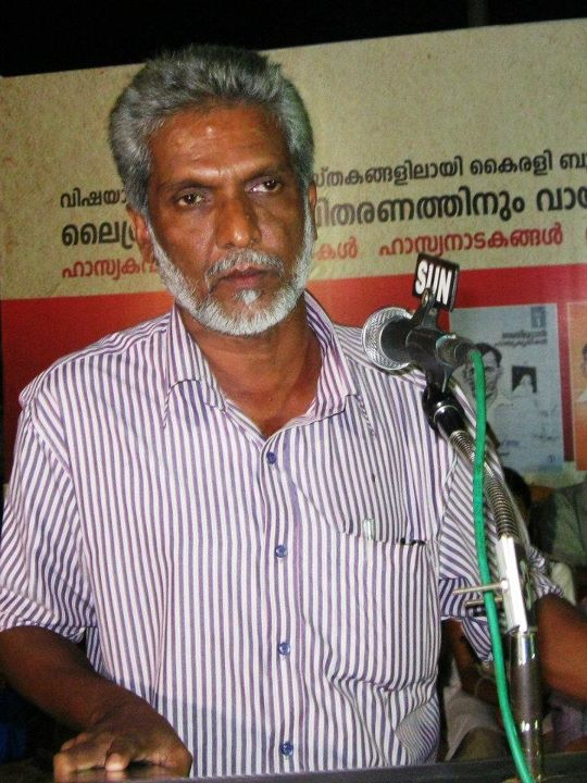 malayalam poet